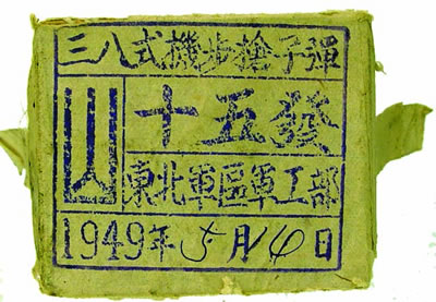 15rd Package of Arisaka 6.5mmx50 ammunition made by Arsenal in Shenyang/Manchuria date 14/May/1949.